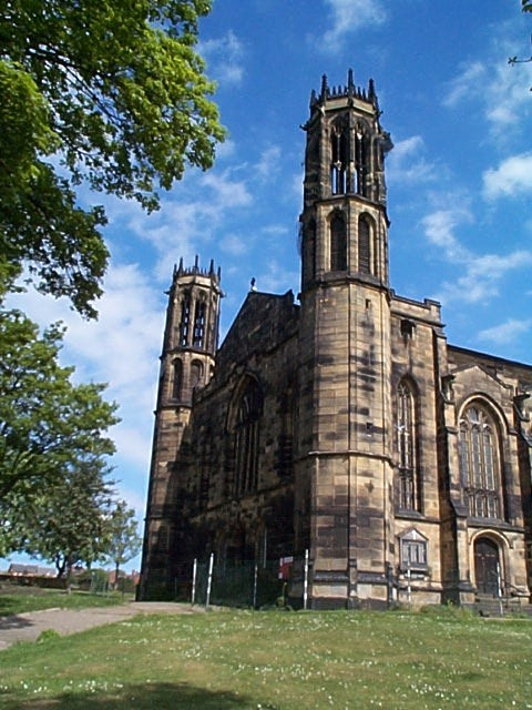 Twin Towers of St Peters Church The twin towers are a unique feature of Stanley St Peters church, and can be seen from most areas of the village. Sadly, these towers could disappear for ever once the developers get their hands on the building, which has been falling into disrepair since being vacated in 2001. Hopefully this will not happen as it is a grade II listed building.